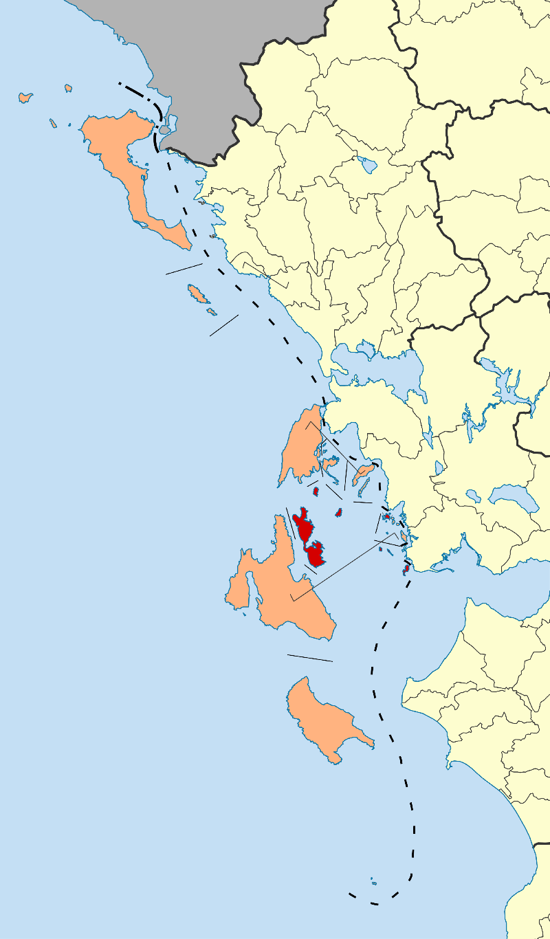 Locator map for Ithaca municipality in Greek region Ionian Islands (2011)